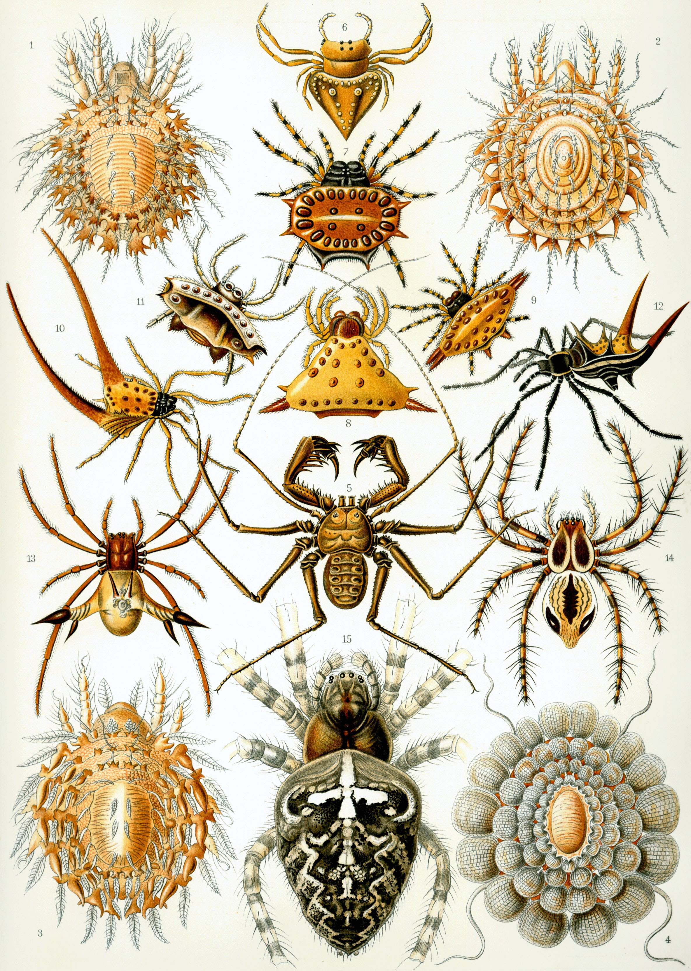 Tegeocranus hericius (Michael) = Protocepheus hericius (Michael, 1887), a type of mite Tegeocranus latus (Koch) = Cepheus latus C.L.Koch, 1836, mites Tegeocranus cepheiformis (Nicolet) = Cepheus cepheiformis (Nicolet, 1855) Leiosoma palmicinctum (Michael) = Tereticepheus palmicinctum (Michael, 1880), a mite Phrynus reniformis (Olivier) = Phrynichus reniformis (Linnaeus, 1758) / Phrynichus ceylonicus (C.L.Koch, 1843), a tailless whipscorpion Arkys cordiformis (Walckenaer) = Gnolus cordiformis (Nicolet, 1849), an orb-weaver spider Gasteracantha cancriformis (Latreille) = Gasteracantha cancriformis (Linnaeus, 1758), orb-weaver spider Gasteracantha acrosomoïdes (Koch) = Acrosomoides acrosomoides (O. P.-Cambridge, 1879), a type of orb-weaver spider Gasteracantha geminata (Koch) = Gasteracantha geminata (Fabricius, 1798) Gasteracantha arcuata (Koch) = Macracantha arcuata (Fabricius, 1793) Acrosoma hexacanthum (Hahn) = Gasteracantha cancriformis (Linnaeus, 1758) Acrosoma spinosum (Koch) = Micrathena schreibersi (Perty, 1833) Acrosoma bifurcatum (Hahn) = Micrathena furcata (Hahn, 1822) Oxyopes variegatus (Hahn) (non Latreille, 1806: preoccupied) = Oxyopes ramosus (Martini & Goeze, in Lister, 1778) Epeira diadema (Linné) = Araneus diadematus Clerck, 1757